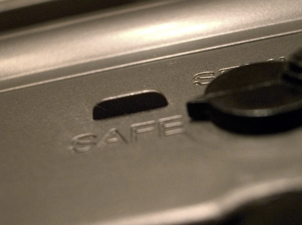 Close-up shot of a safety of an M16A2 rifle. Please use my photography as you wish and feel free to submit comments to .